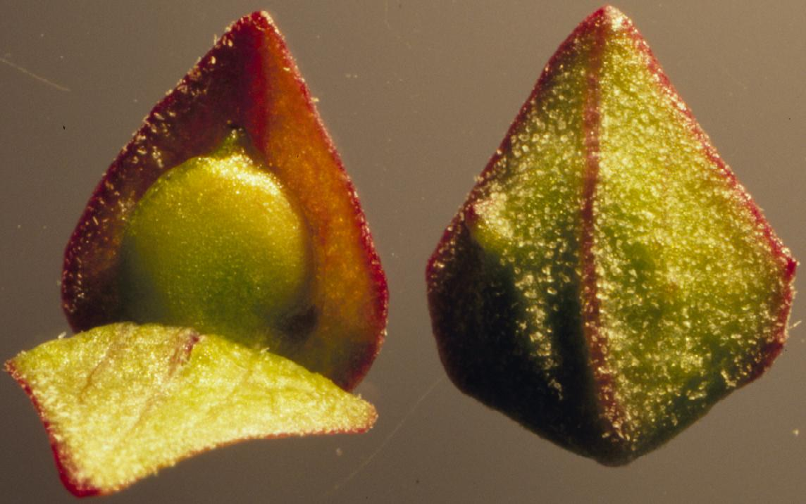 The laterally flattened (compressed) flowers are subtended by a pair of unelaborated bracts.